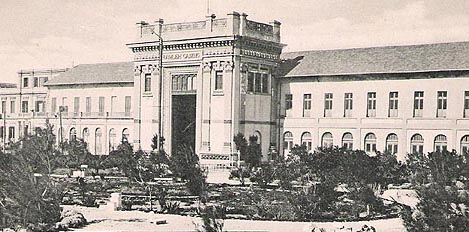 The former "Ramleh-Les-Bains's Casino & Hotel San Stefano" in Alexandria, Egypt.